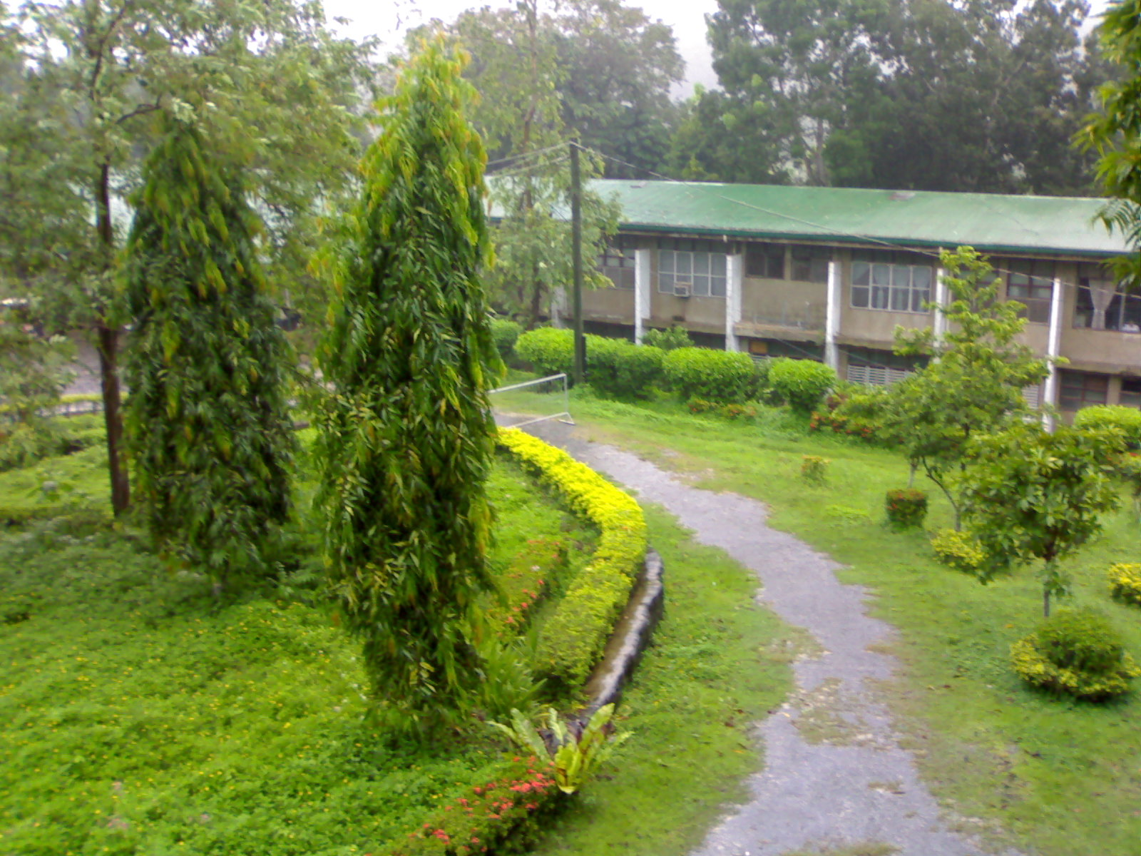 photograph vantage of Juan S. Alano Memorial Hospital Inc. (Basilan Hospital)